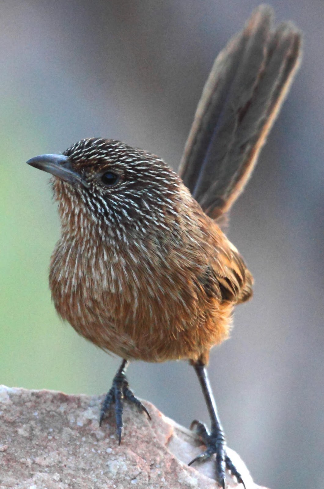 Dusky Grasswren (Amytornis purnelli), Northern Territory, Australia